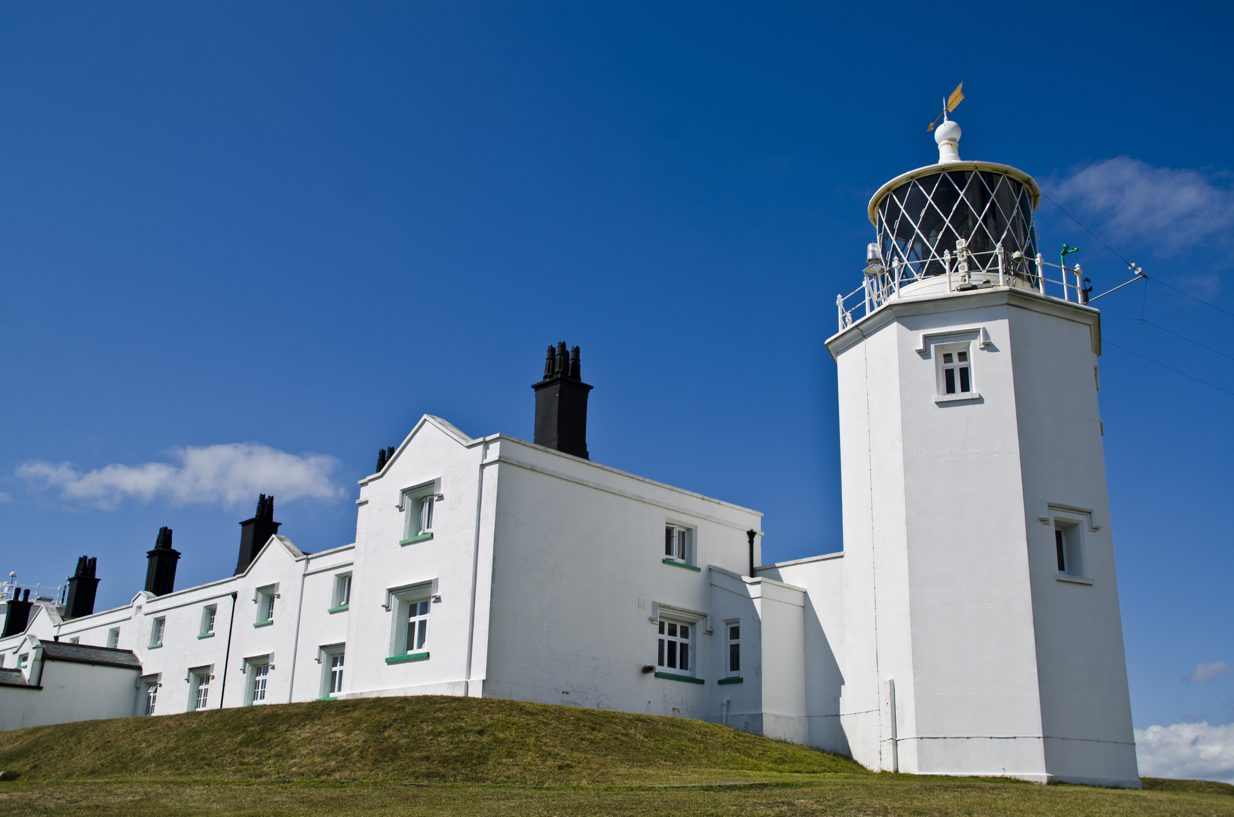 Lizard Lighthouse monument